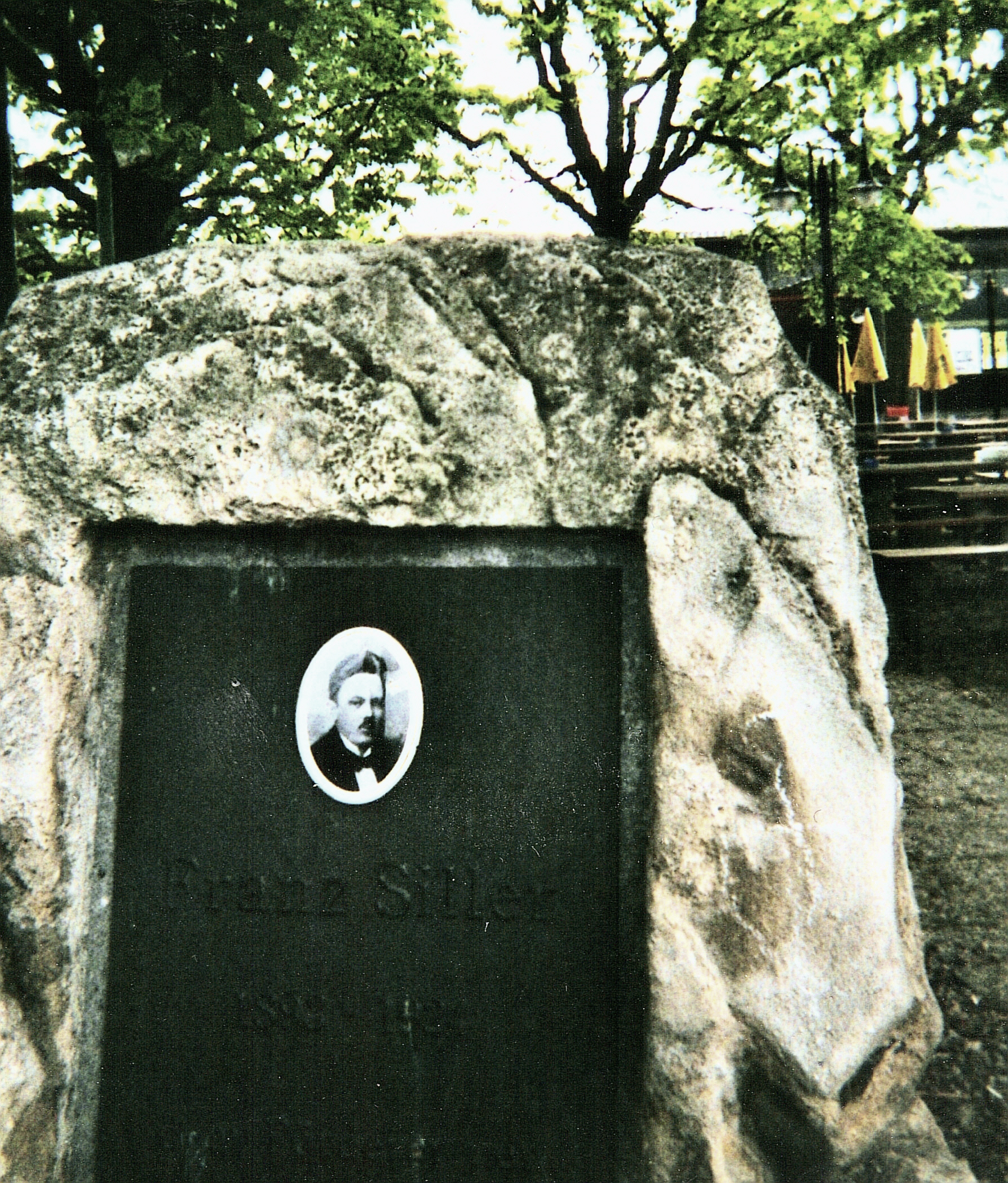 Monument to Franz Siller, Schmelz, Vienna